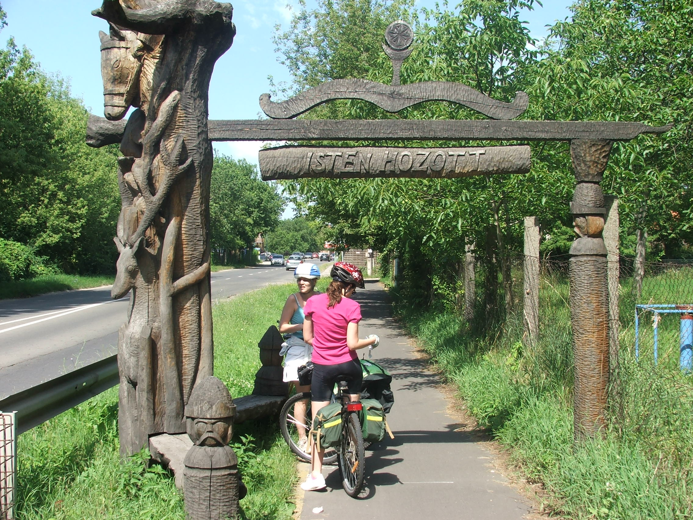 The Danube-Bikeway passing Verőce, Hungary